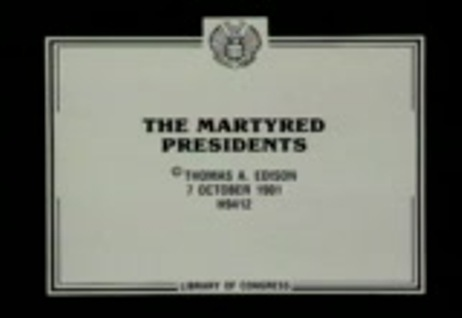 Title card of the film The Martyred Presidents (1901). From an Edison film company catalog: "The scene opens with a beautiful woman who represents Columbia seated at the altar of Justice. As if from out of space there slowly appears a perfect and lifelike picture of Abraham Lincoln. The forming of the picture is first noticed by the appearance of what seems to be a mere spot on the front of the altar. This spot slowly enlarges and is focused into shape, until, to the amazement of the audience, the face of the great emancipator is clearly shown. President Lincoln's likeness is allowed to remain upon the altar just long enough for recognition, when, in the same mysterious manner that it appeared, it slowly fades and in its place their grows the picture of President Garfield. This in a like manner fades away, and again as out of the dim distance comes the picture of our great martyred President, William McKinley. The tableau is then dissolved into a picture of an assassin kneeling before the throne of Justice. Here the tableau ends, leaving an impression of mingled sorrow and sublimity upon the audience."